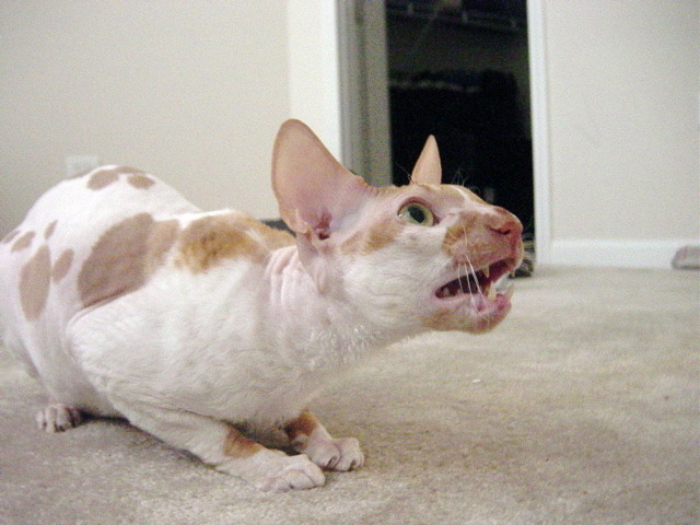 Killian, a red & white Cornish Rex.